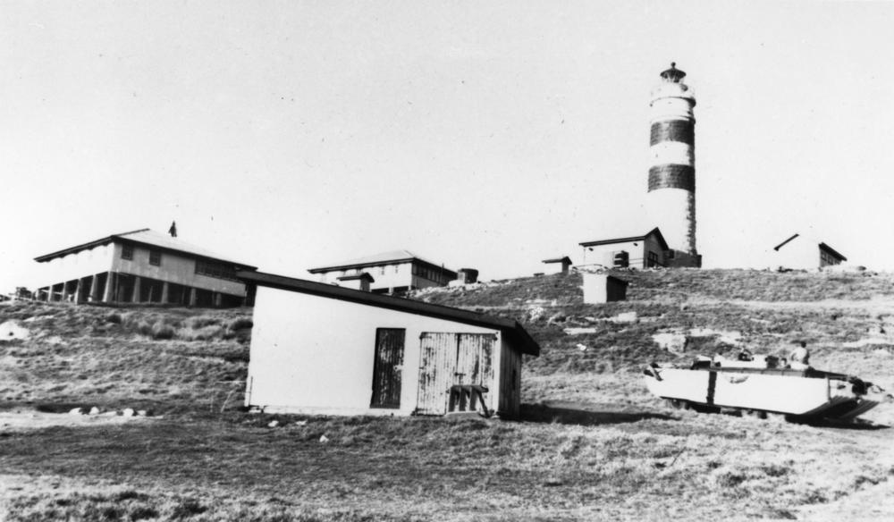 Buildings surrounding the lighthouse at Cape Moreton, 1951 There is an amphibious craft on the right, coming down the hill from the keeper's house.